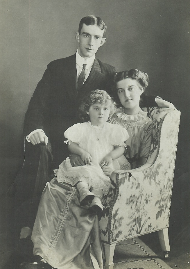 Prince Wilhelm, Princess Maria and their son Lennart